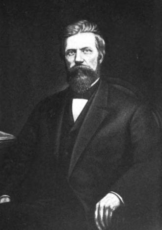 Portrait of Silas Brainard from A History of Cleveland, Ohio, Volume III, 1910, page 201